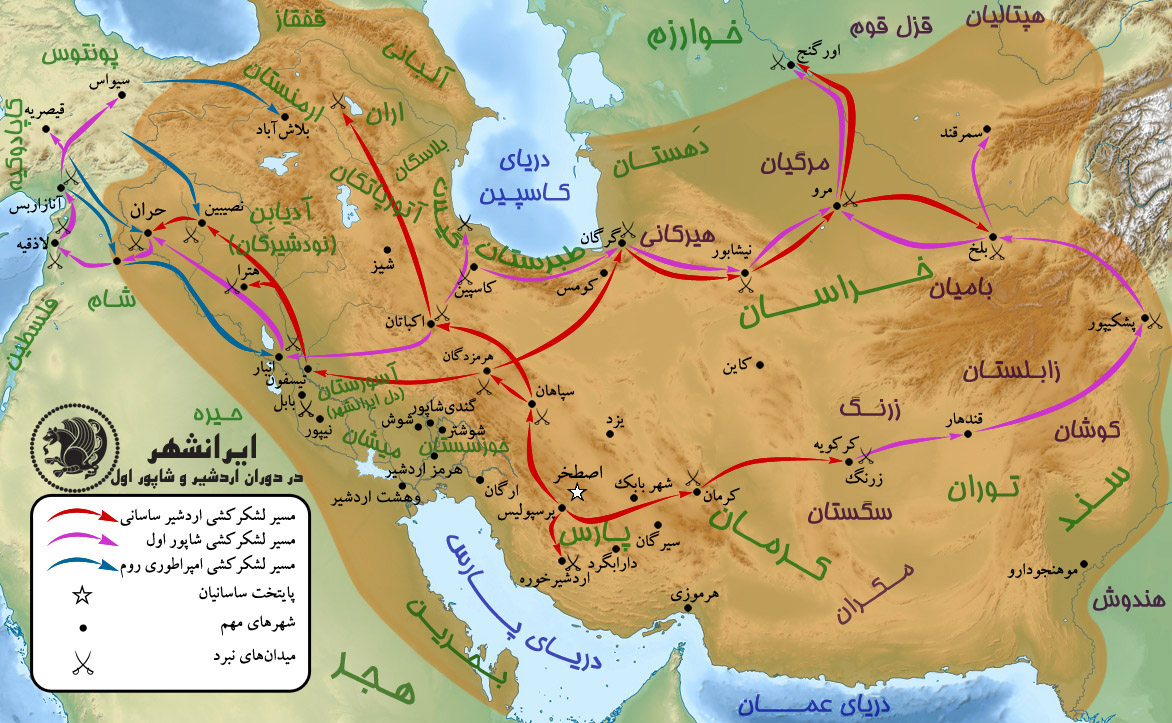 routes of Ardashir I and Shapur I's war Campaigns red arrows show Ardashir I's campaign that began from his Birthplace, Istakhr. pink arrows show campaigns of Shapur son of Ardashir I. blue arrows show Roman's Defensive campaigns Against Ardashir and Shapur Attacks. in this map, wars begin with Ardashir revolt about AD 211/212 and end in Battle of Edessa in AD 260